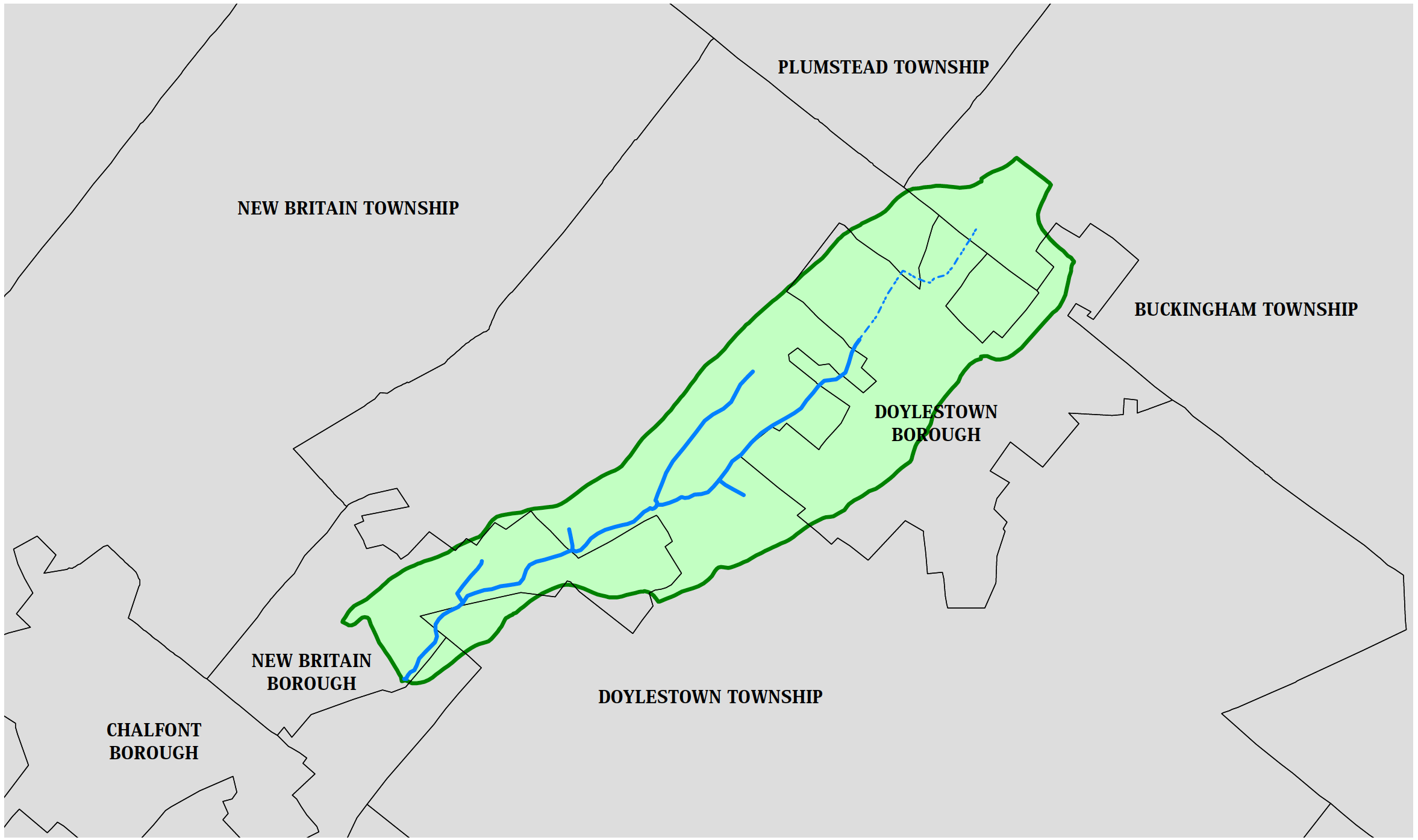 Cooks Run and its watershed (3.3 square miles) are located in central Bucks County. This stream flows in a southwesterly direction and eventually flows into the Neshaminy Creek, which subsequently flows into the Delaware River. Currently, Cooks Run is classified as Warmwater Fishery (WWF), MF (Migratory Fishery) under PA DEP’s Chapter 93 Water Quality Standards. The headwaters of Cooks Run are located within the Borough of Doylestown and then flow through Doylestown Township and the Borough of New Britain. Both the Neshaminy Creek and its tributary, Cooks Run, are listed on the State’s 303(d) List of Impaired Waters.